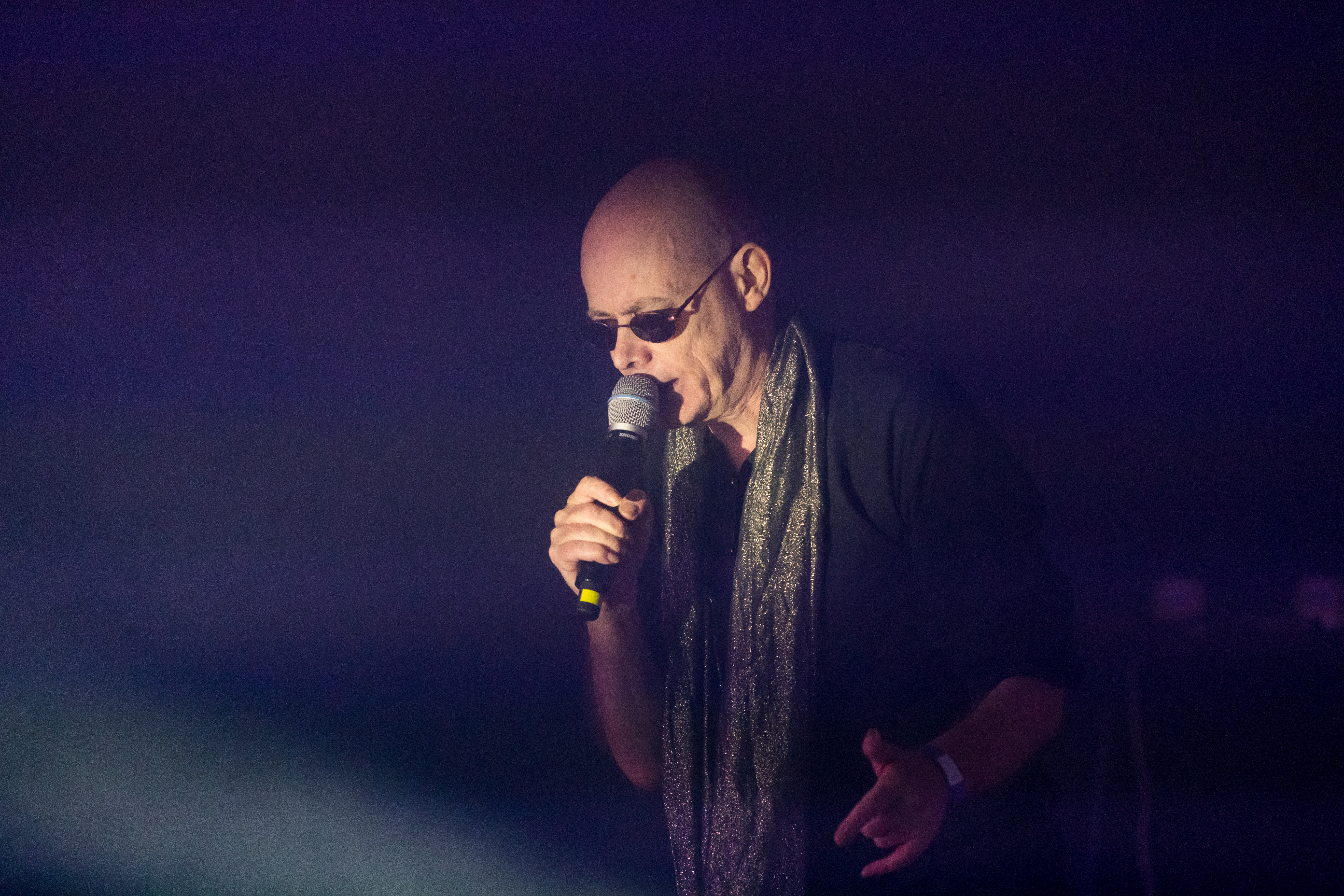 Sisters of Mercy during Wacken Open Air at The Holy Wacken Land, Wacken, Schleswig-Holstein, Germany on 2019-07-31, Photo: Sven Mandel